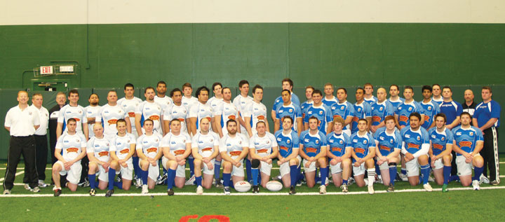 Team Photo of the 2009 Kansas City Blues Rugby Football Club.